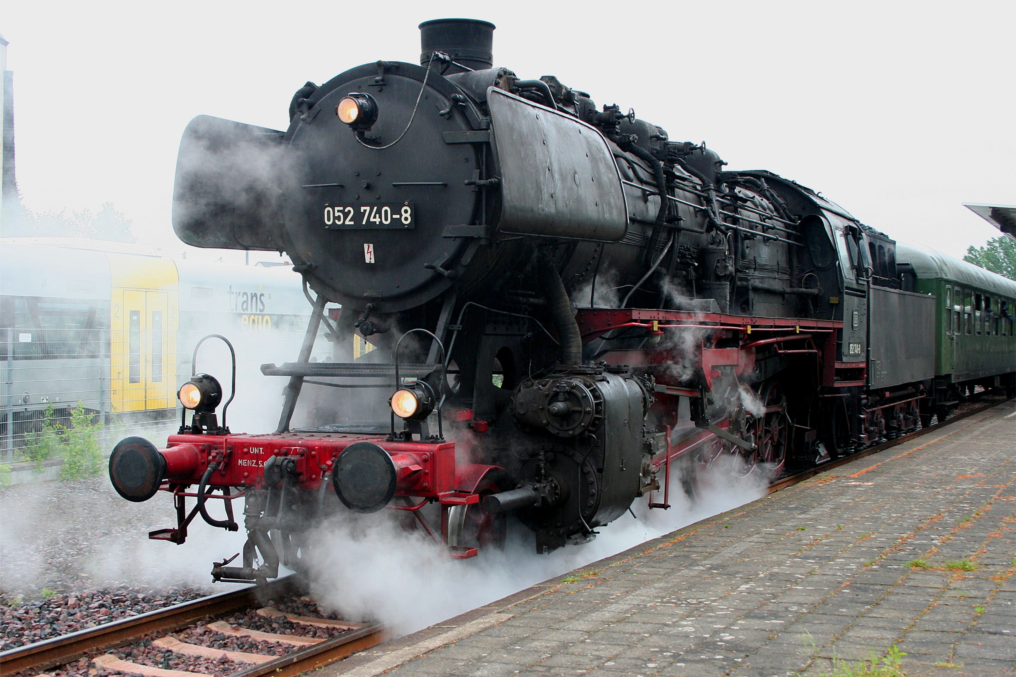 Steam locomotive DR Class 50 at Mayen Ost train station.